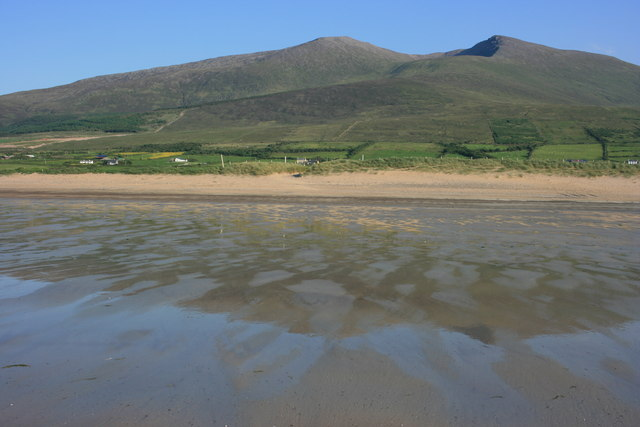 Gowlane Strand. Evening light provides an excellent reflection in the wet sands of Gowlane Strand. The mountains are Stragbally (798 metres, on left) and Beenoskee (826metres, on right). To see the farmland between the beach and the mountains, see 1576947